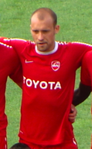 Renaud Cohade (Valenciennes FC)